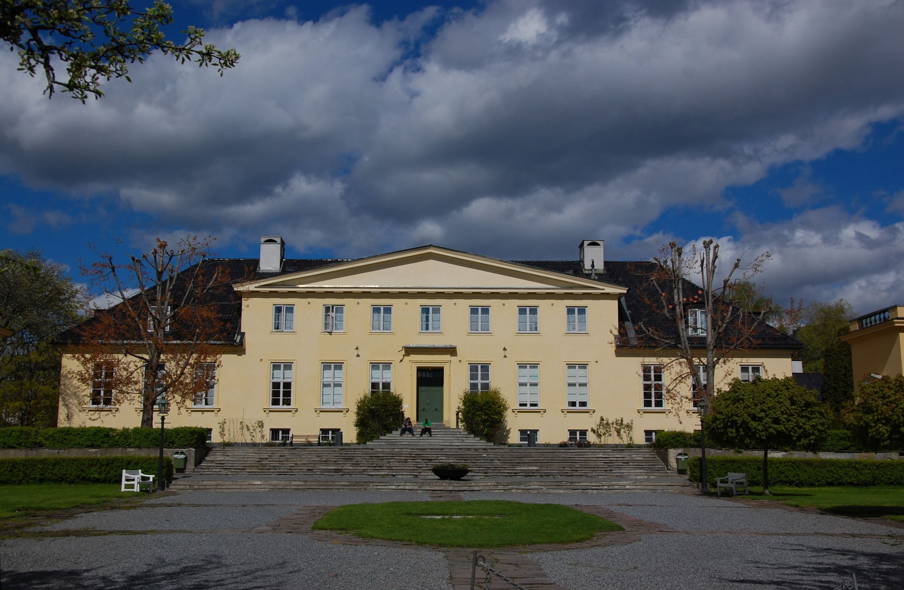 Blindern Studenterhjem, Blindernveien 41, Oslo. Studenthousing from 1925. Architect Nicolai Beer. Consists of several buildings and a park. Protected by law.